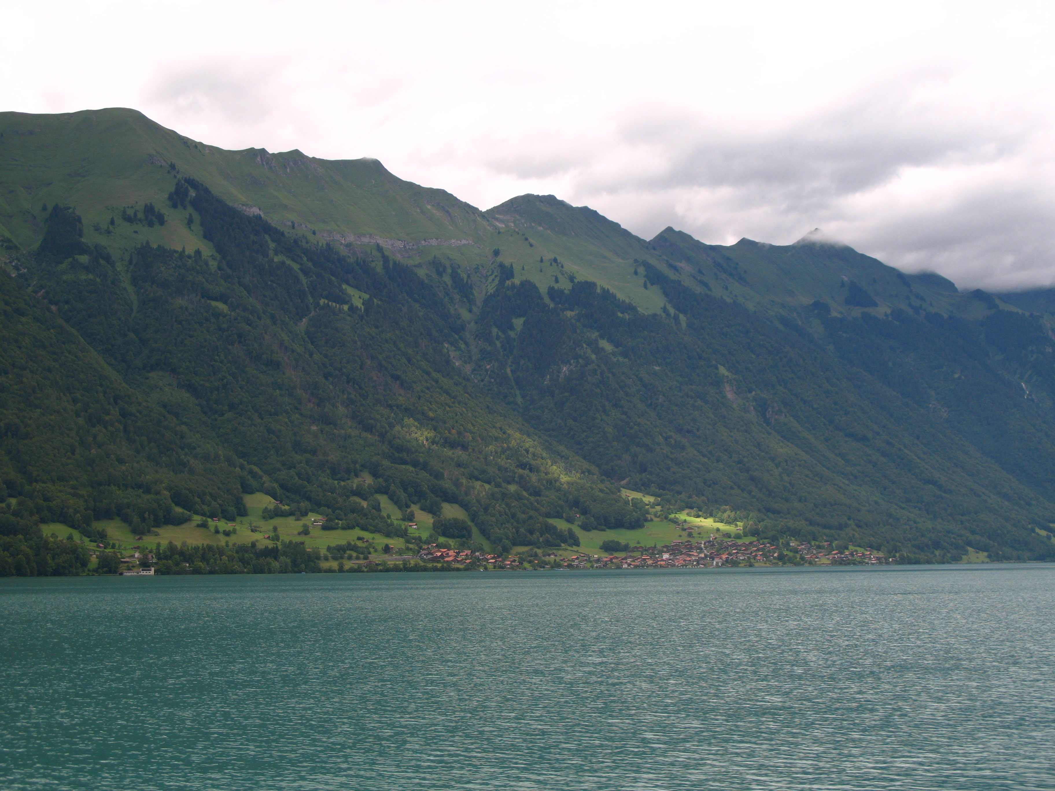 Lake Brienz, Oberried, Switzerland